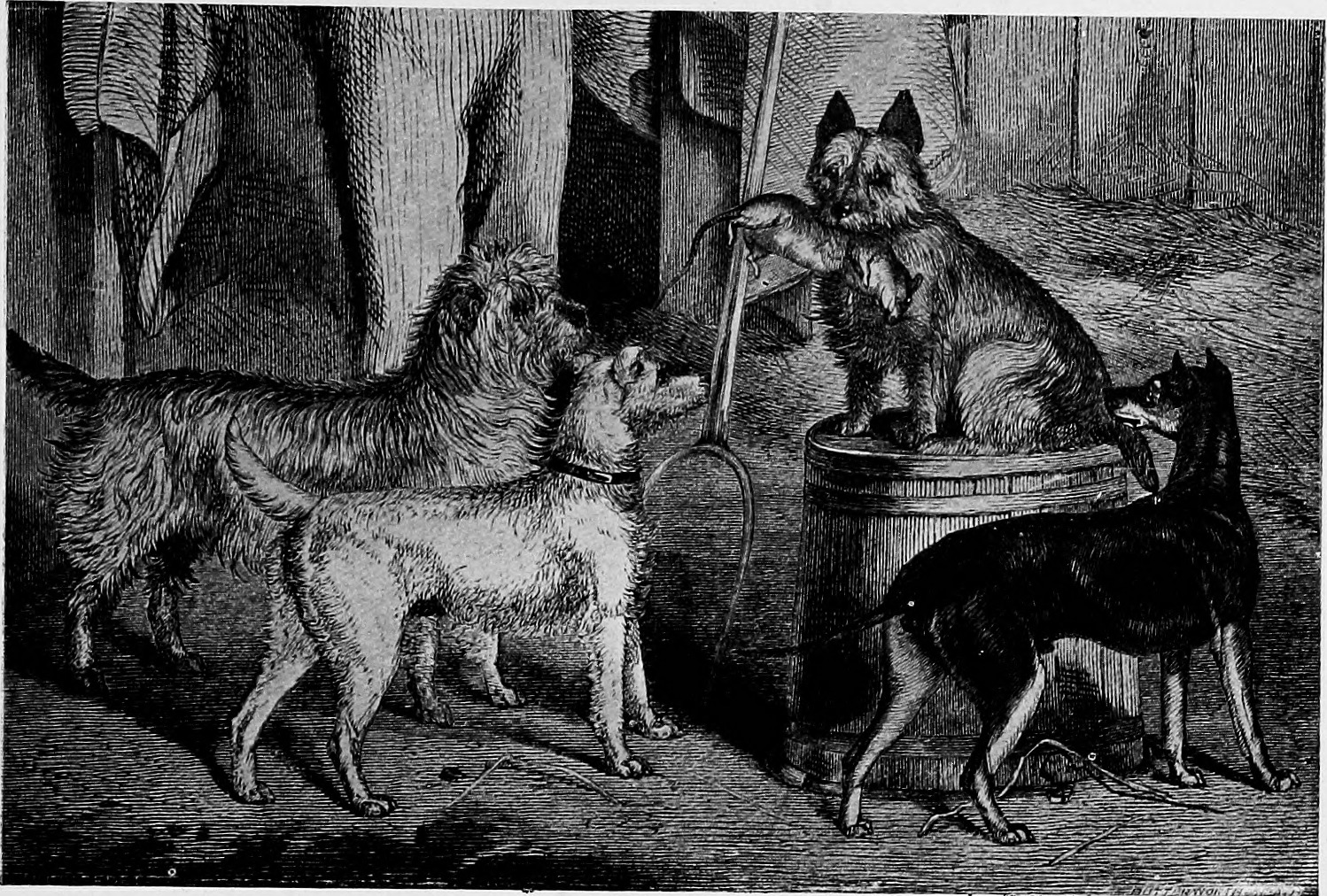 Title: The dog book. A popular history of the dog, with practical information as to care and management of house, kennel, and exhibition dogs; and descriptions of all the important breeds Year: 1906 (1900s) Authors: Watson, James, 1845- Subjects: Dogs Publisher: New York, Doubleday, Page & Company Text Appearing Before Image: ' Text Appearing After Image: ORIGINAL YORKSHIRE TERRIER THE BROKEN-HAIRED TERRIER Later the wire-haired fox terrier v-issa A bPEclMEN DtG OF MR RADCI IFFE S BPEEDING Strain given up in a few \ ear-. THE SMOOTH BLACK-AND-TAN TERRIER TERRIERS IN " STONEHENGE ' Reptesenting te.ncrs â â tjther man Sltye, Dandle and fox " oi 1868-18